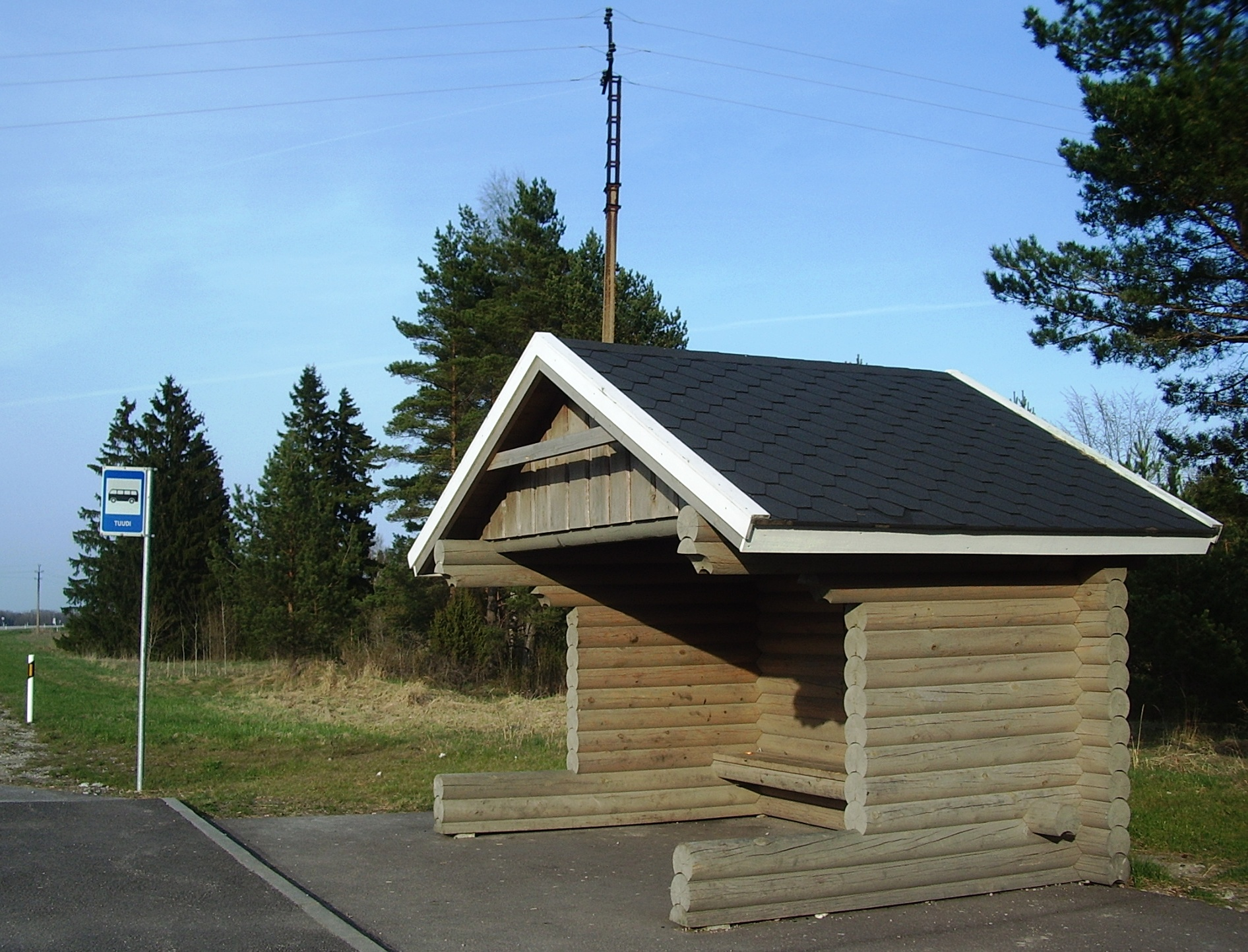 A bus stop in Tuudi, Lääne county